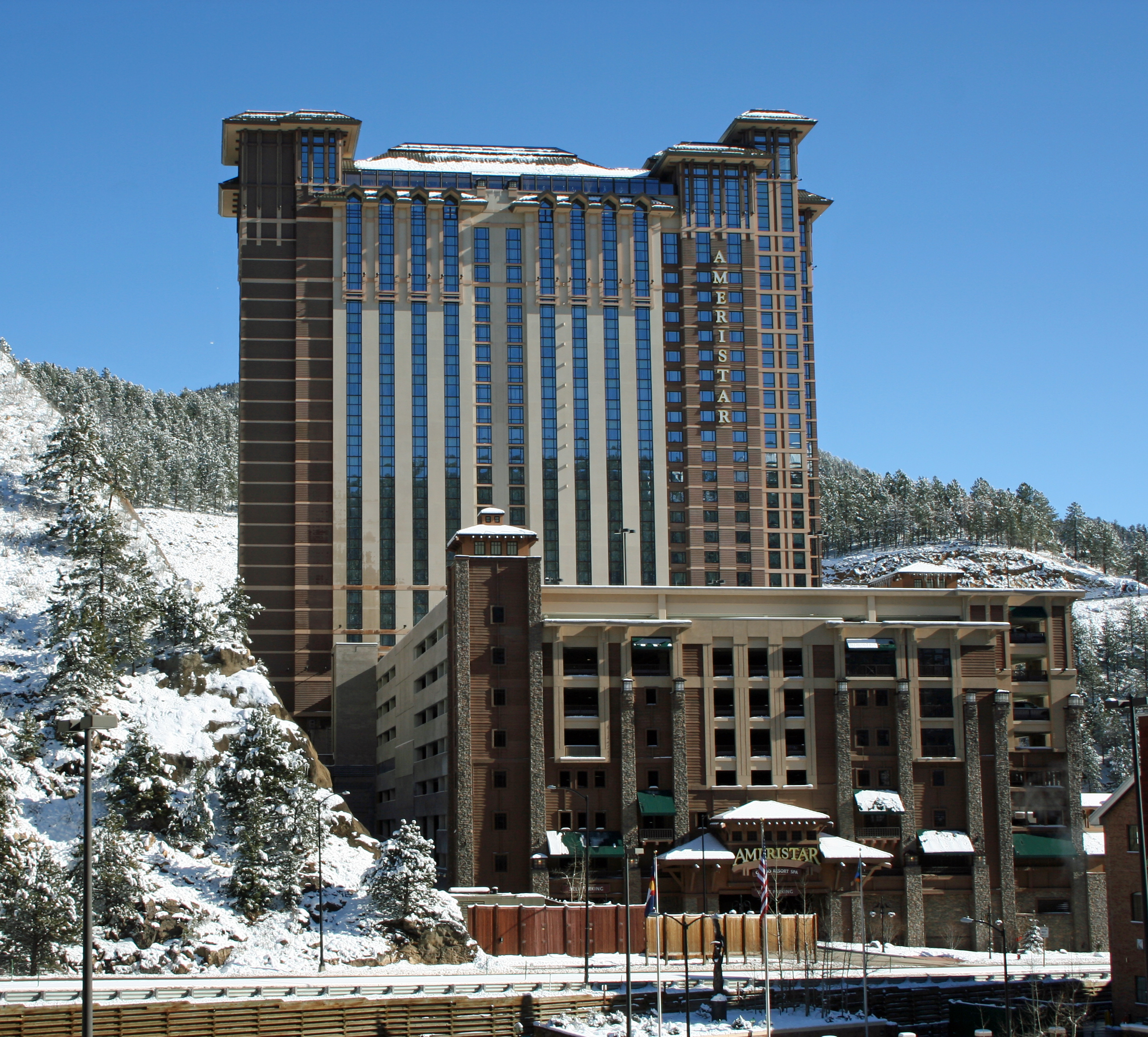 The Ameristar Casino Resort Spa Black Hawk, located in Black Hawk, Colorado.